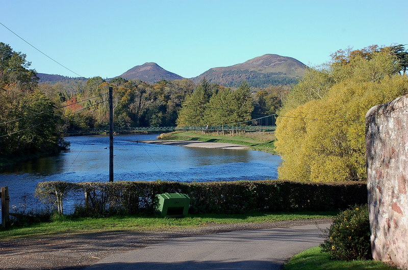 The Tweed at Dryburgh, Berwickshire, wit the Eildon Hills (Roxburghshire) beyond